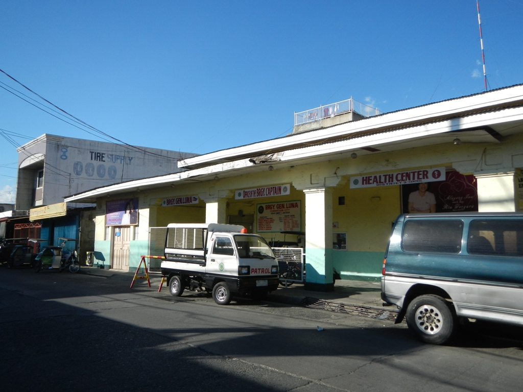 General Luna (Poblacion) and Padre Burgos (Poblacion), Cabanatuan City, Nueva Ecija.